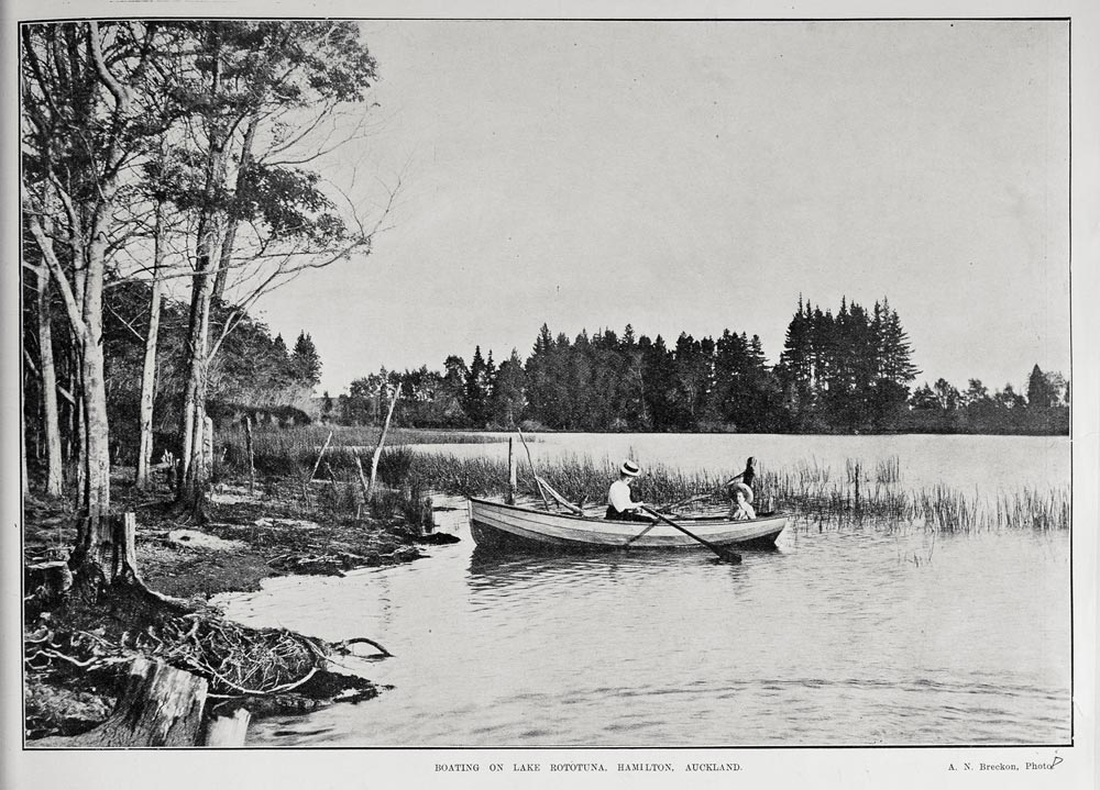 Rototuna Lake, Horsham Downs, in 1908